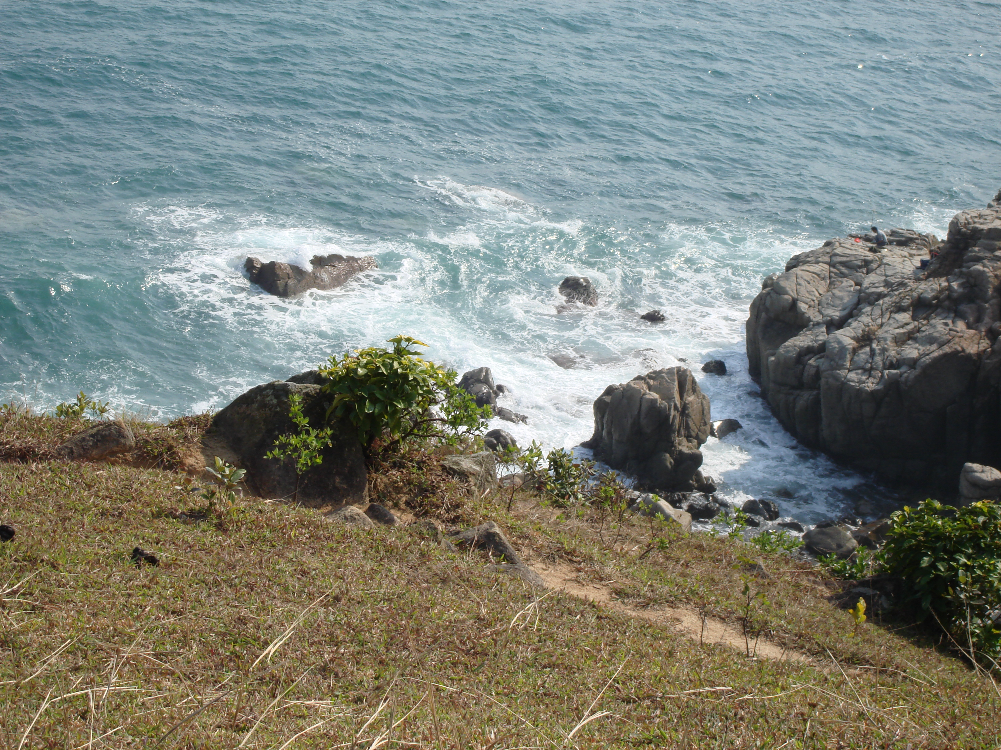 The dirt paths encircling Tap Mun hilltops, precariously close to the bordering cliffs.